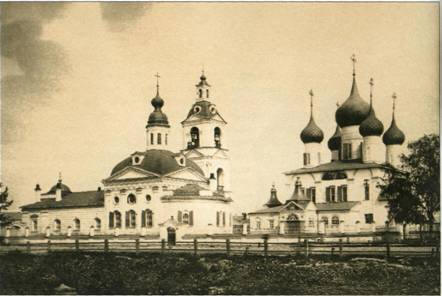 Ascension Church in Yaroslavl. View from the south-east.